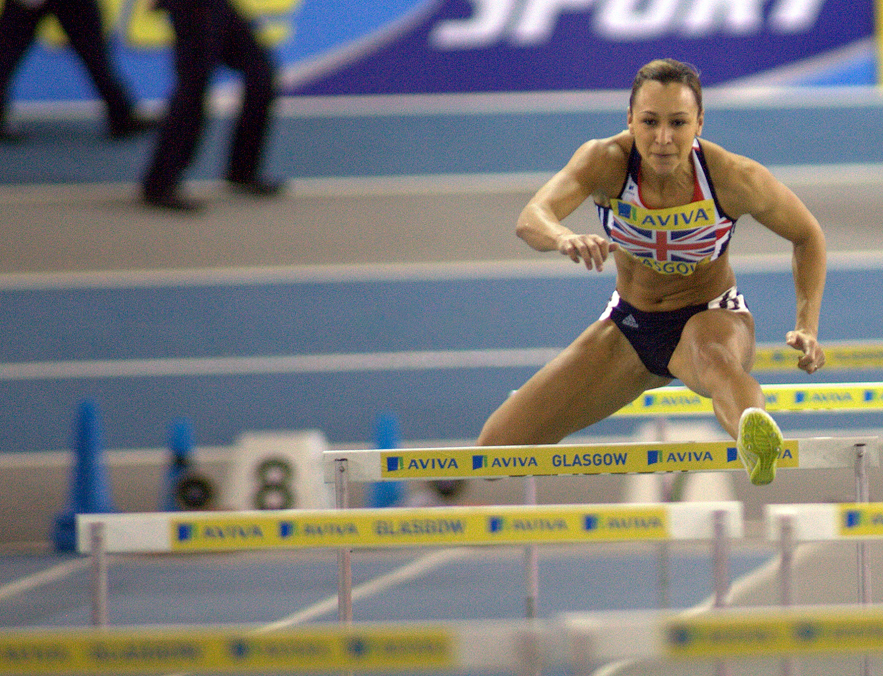 AVIVA INTERNATIONAL ATHLETICS 2011 Great Britain's Jessica Ennis takes first place in the Aviva Women's 60m Hurdles. Picture : Alasdair Middleton/Universal News & Sport (Scotland) GLASGOW/KELVINHALL Saturday 29th January 2011 Universal News and Sport (Europe) All pictures must be credited to (0ffice) 0844 884 51 22